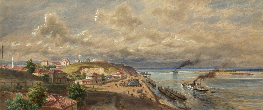 Ruse by Felix Kanitz